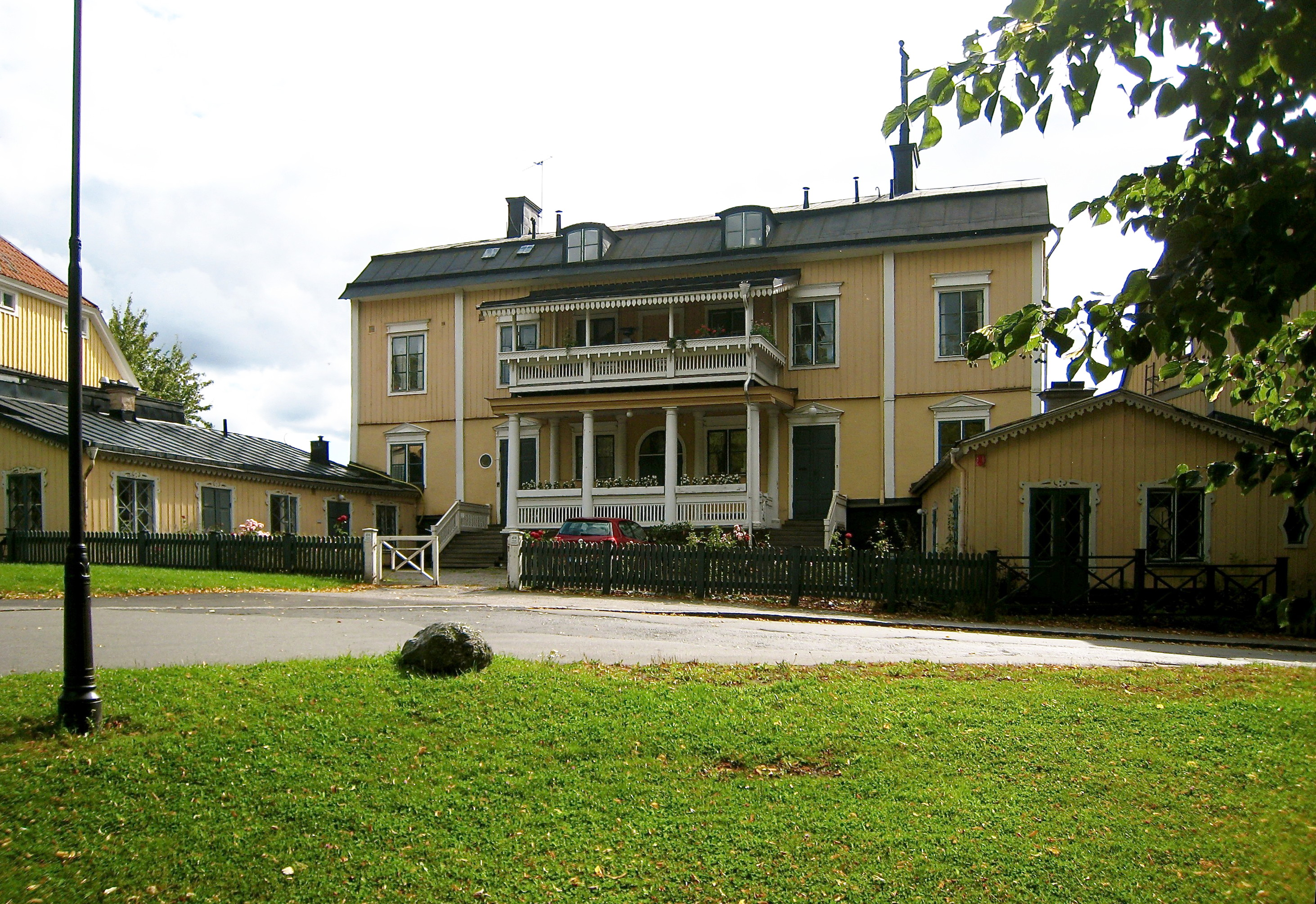 Franska värdshuset